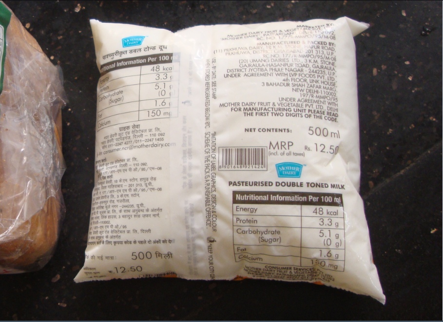 Mother Dairy double Toned Milk as marketed in Delhi, India